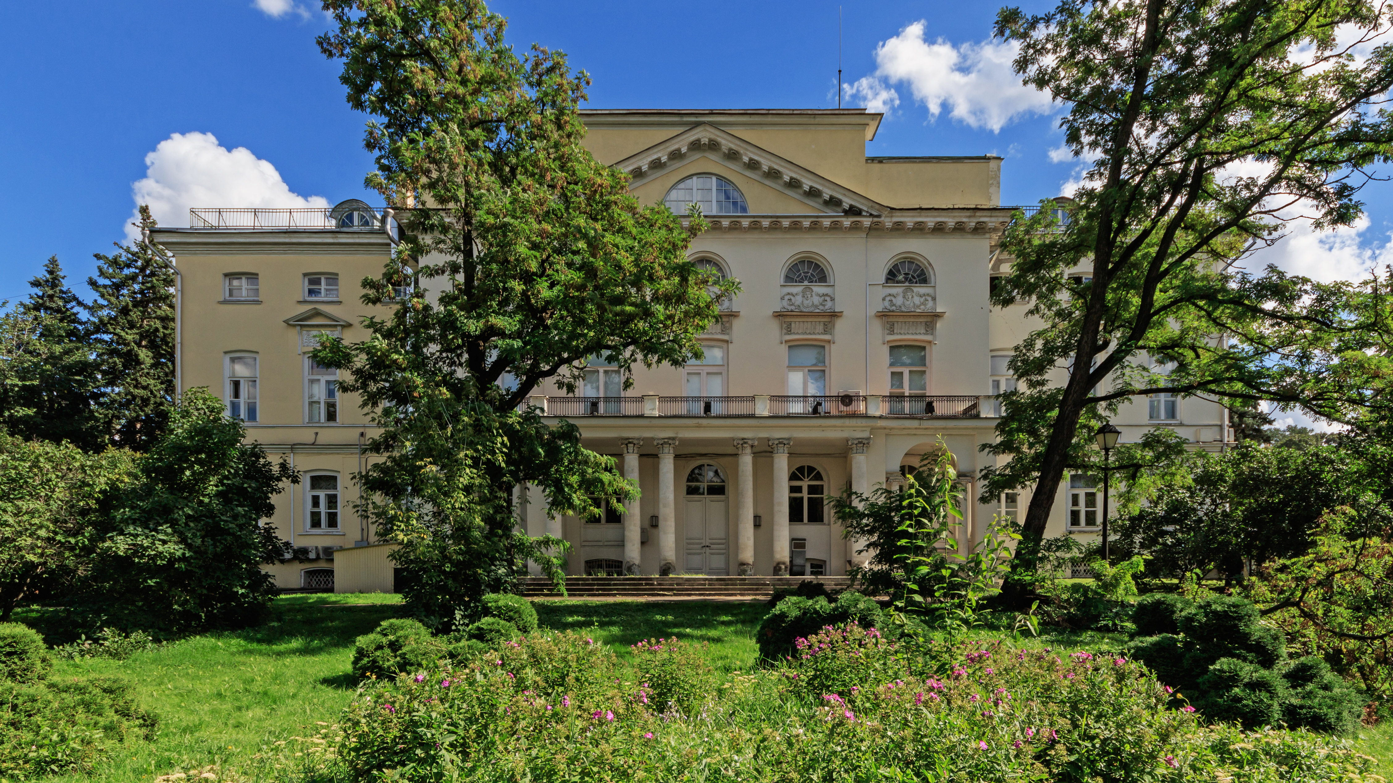 Garden side of Alexandriysky Palace (part of former Neskuchnoe Estate). Moscow, Russia.